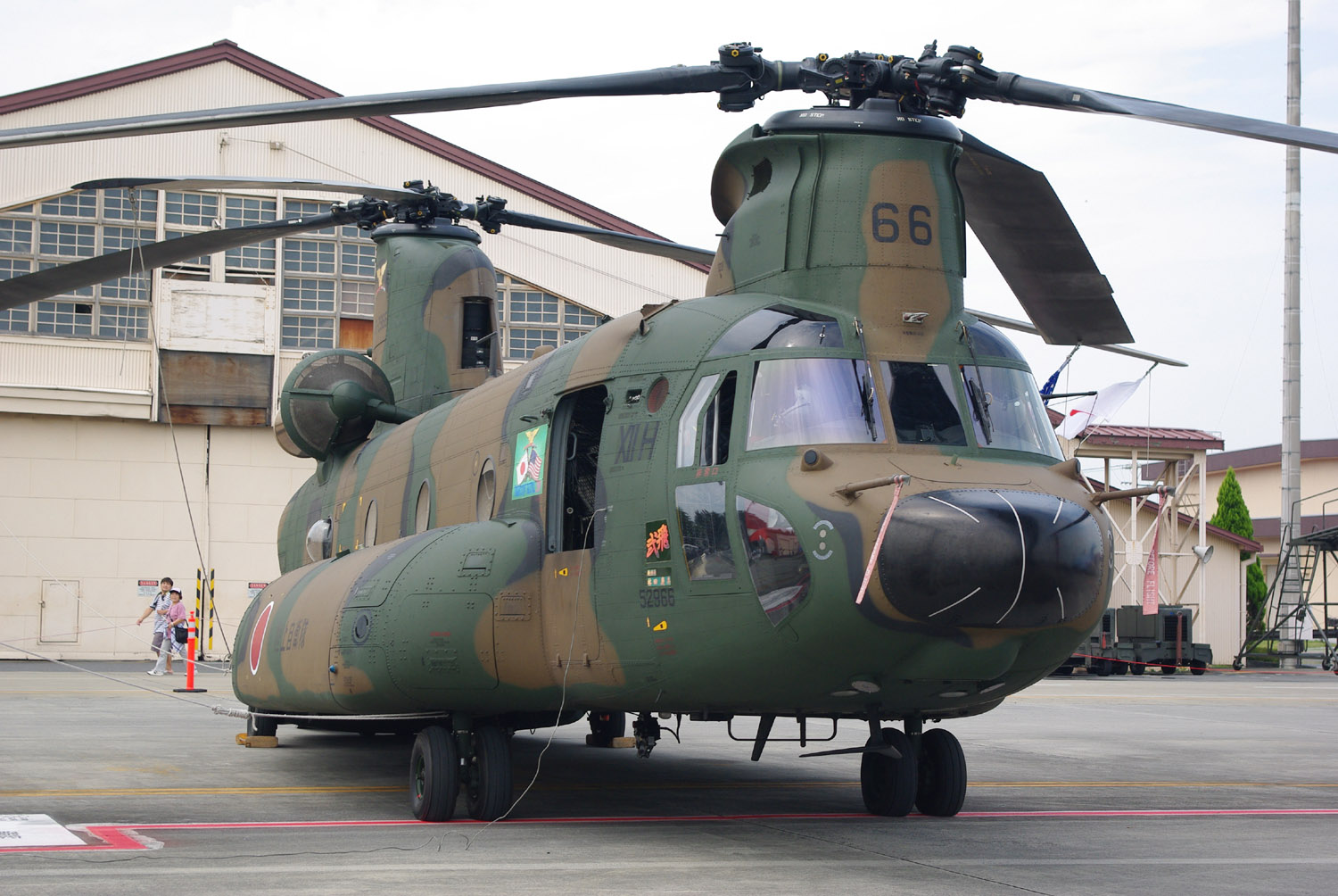 JGSDF CH-47JA, 22-Aug-2009. Taken by Los688, at USAF Yokota AFB, Japan. PD-self.